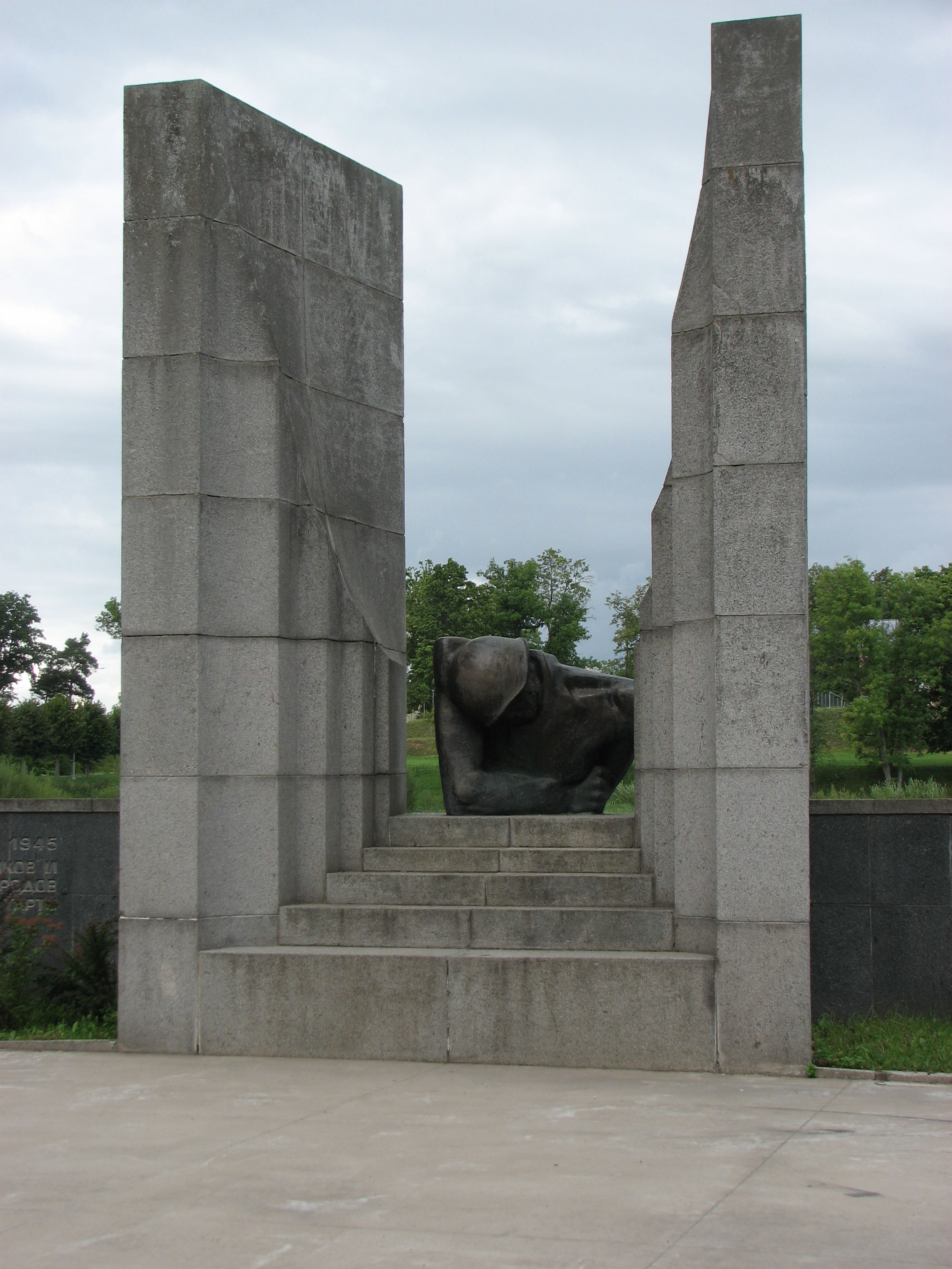 World War II Memorial in Tartu, Estonia. Year 2008